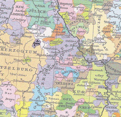 Princely Abbey of Prüm, cropped from a late 19th century map of the Holy Roman Empire showing Prüm as at 1400. The largest neighbours are the Duchy of Jülich (blue-green, north), the Bishopric of Liège (purple, northwest), the Duchy of Luxembourg (orange, south, labelled Herzogtum Lützelburg) and the Electorate of Trier (purple, west). Also visible is the large Electorate of the Palatinate in yellowish green at the southeast of the map (labelled Kurpfalz) and the Rhine — the bold black line running north–south in the east of the map.